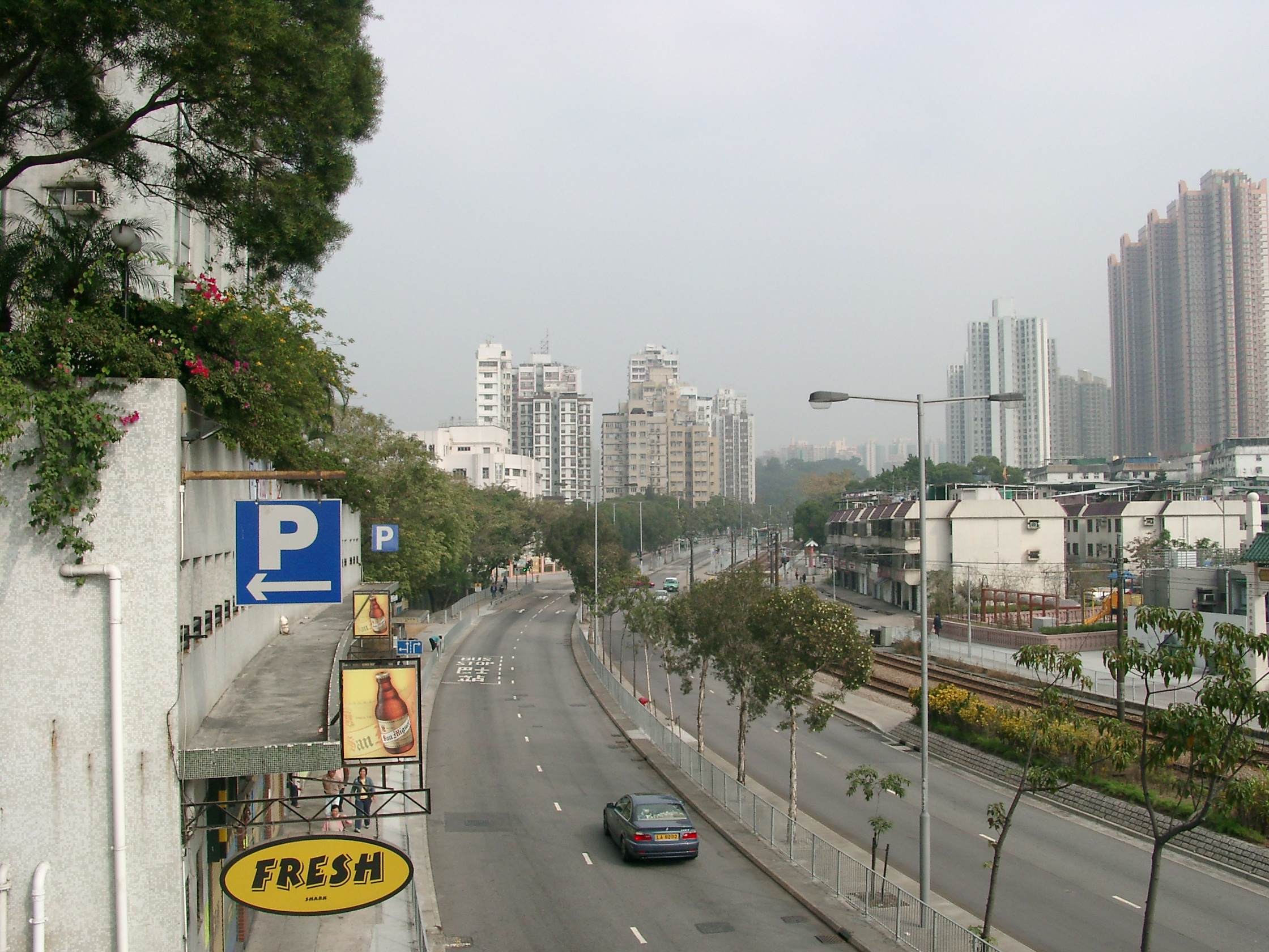 Castle Peak Road near San Hui, Hong Kong. Looking north. Photo taken by ivangrant on 25 December 2004.